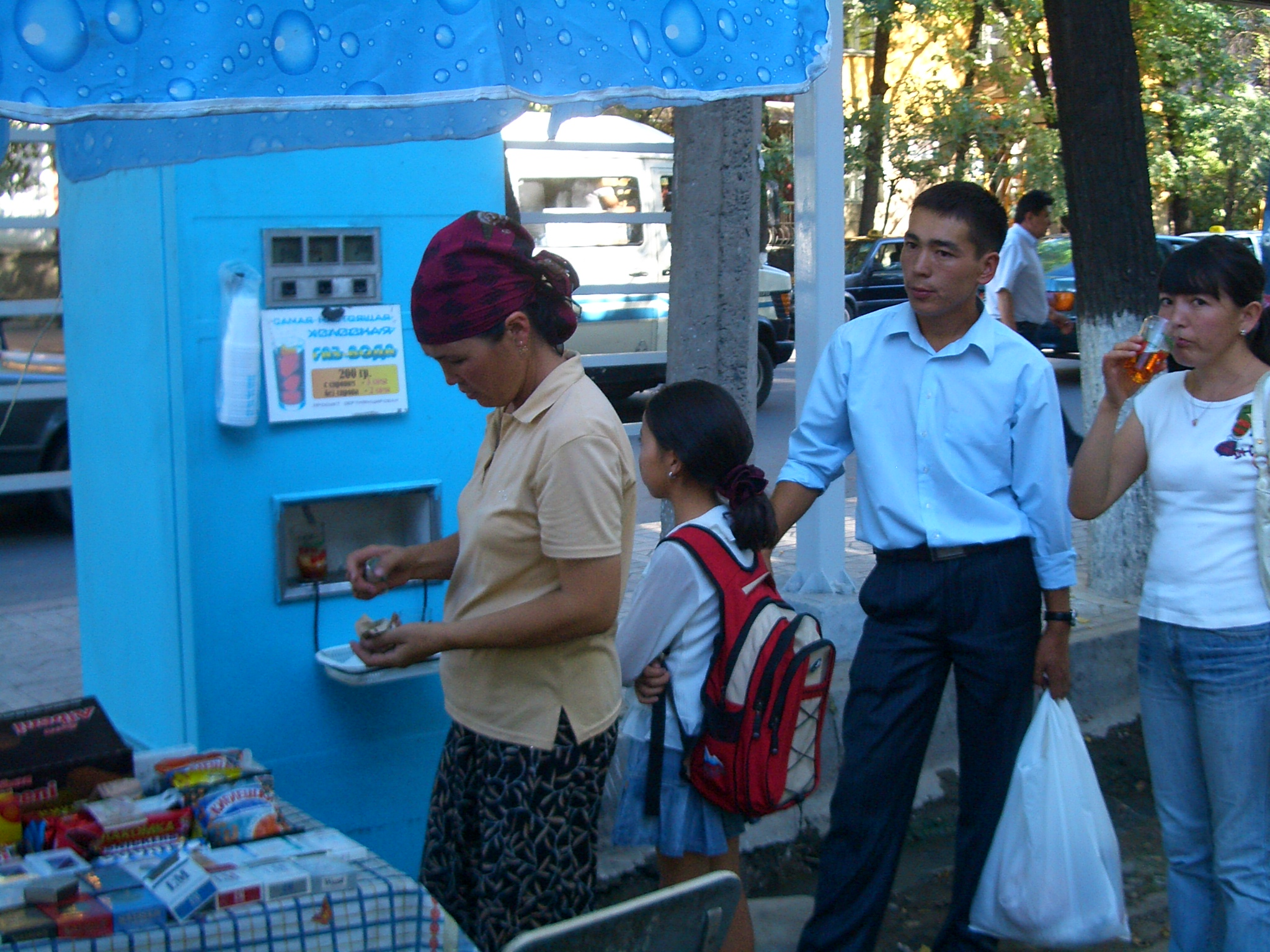 Soda water vending machine (staffed!) in Bishkek.